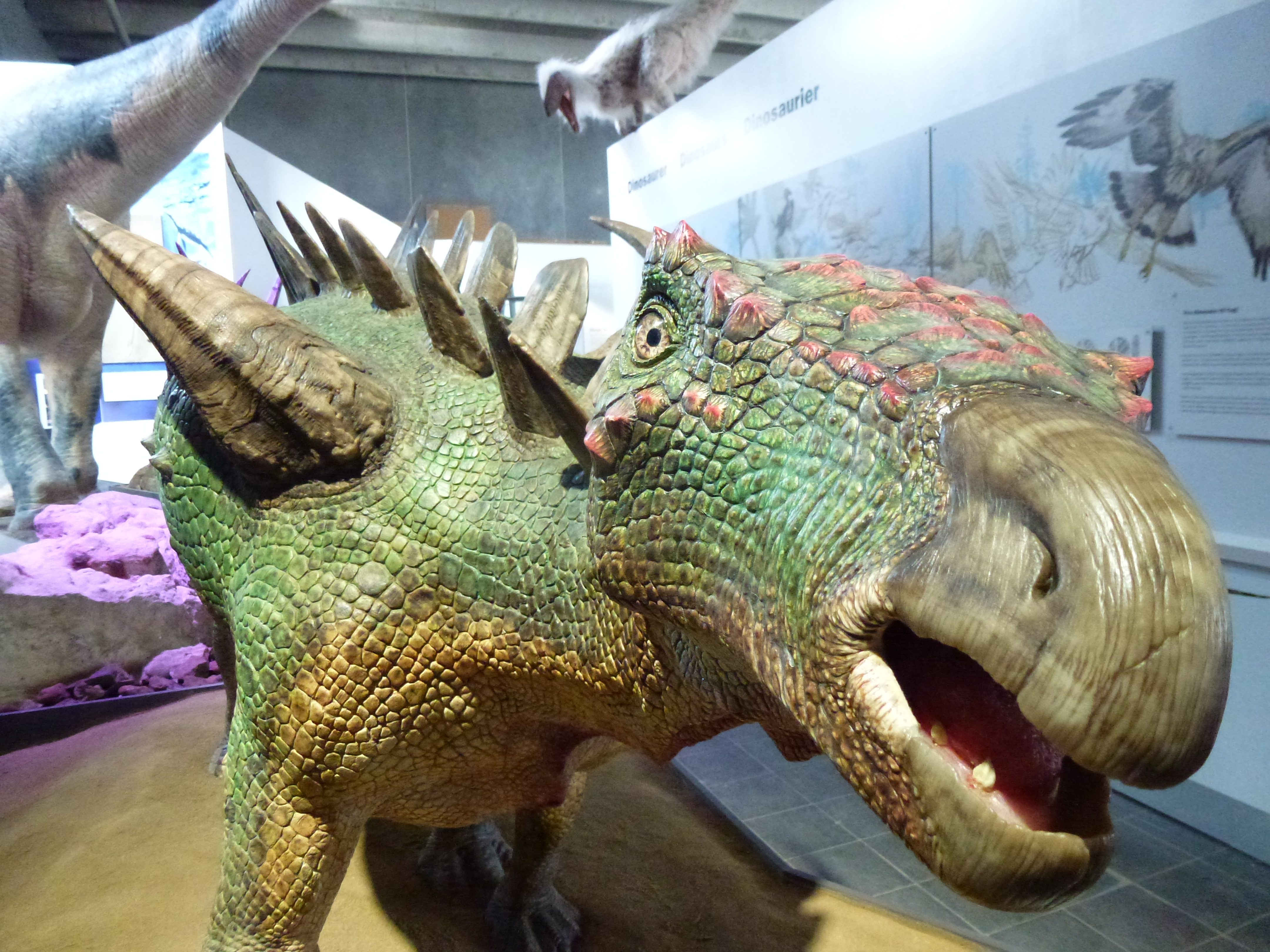 Reconstruction of Huayangosaurus in NaturBornholm